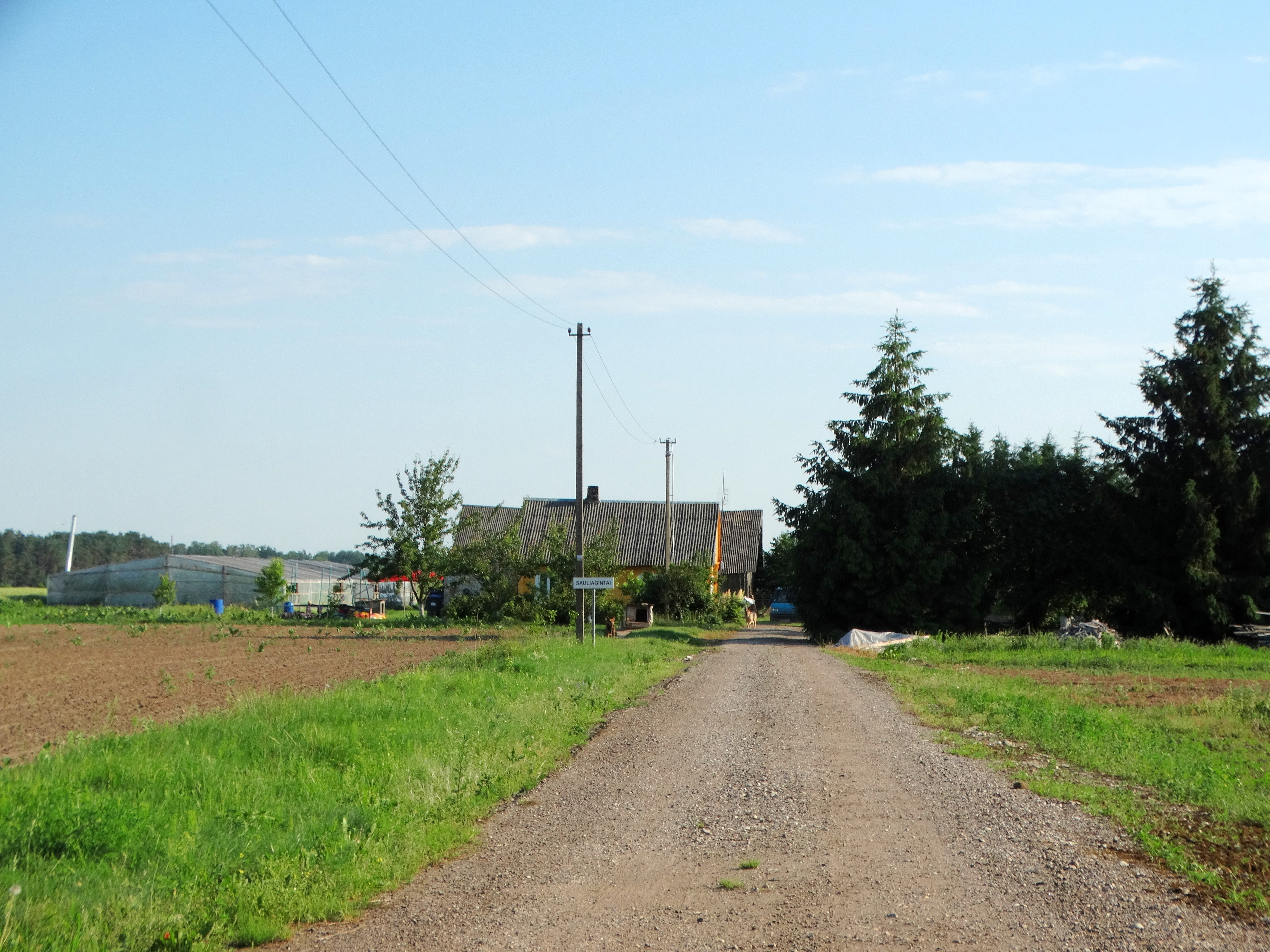 Pramislava, Aukštieji Kapliai, Kėdainiai district, Lithuania